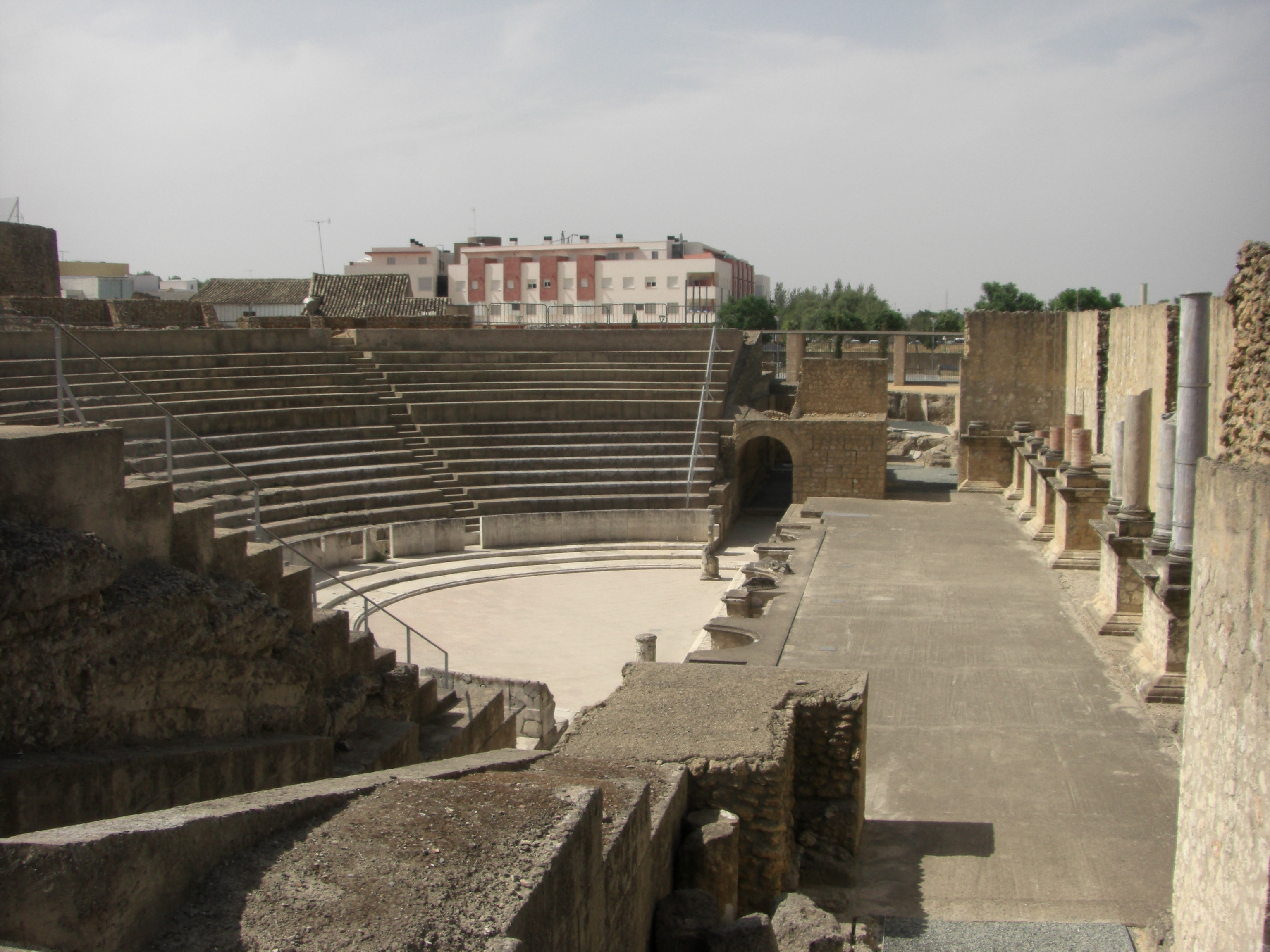 Roman Theatre in Italica